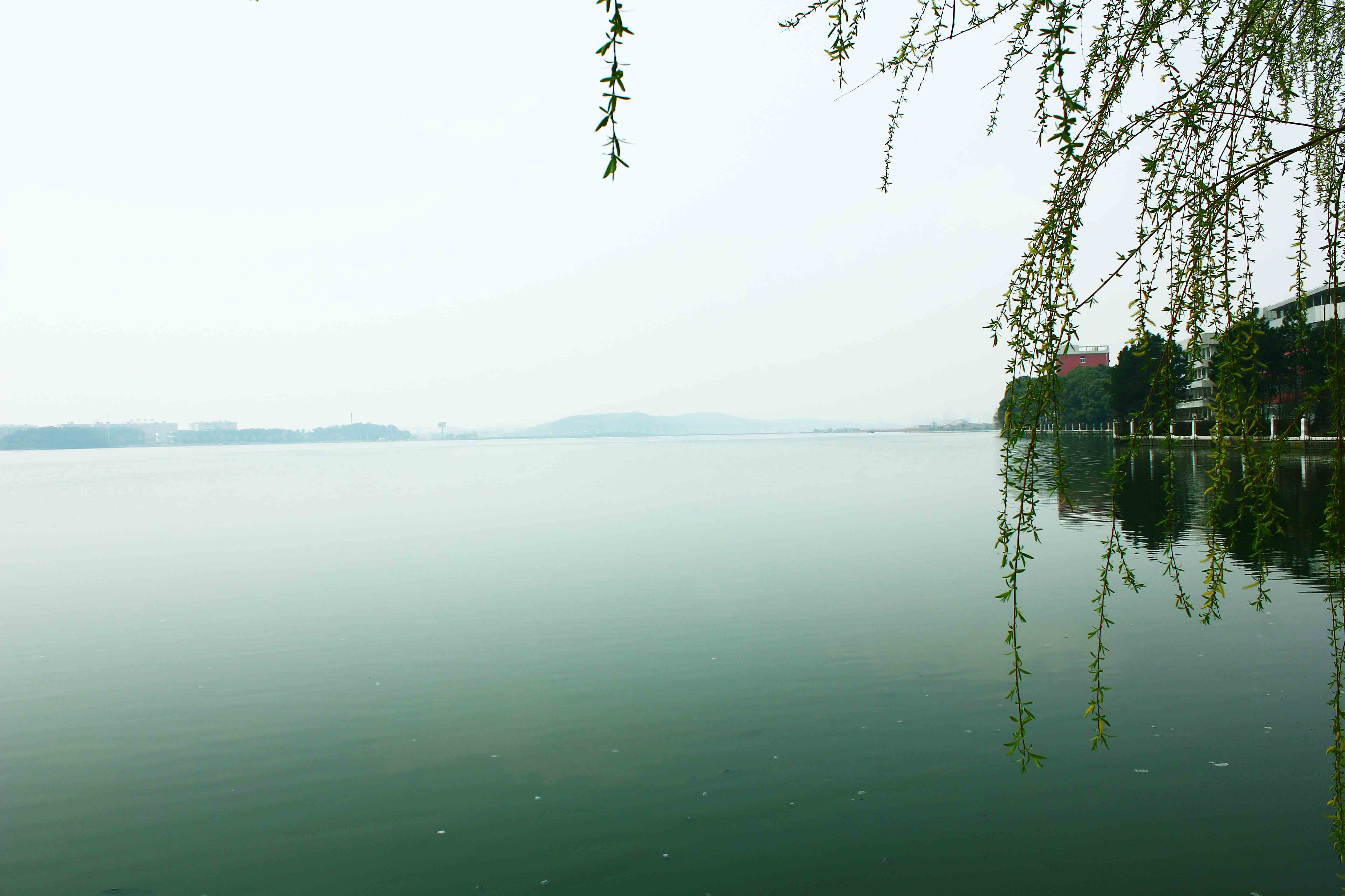 Wuhan South Lake in South-Central University for Nationalities